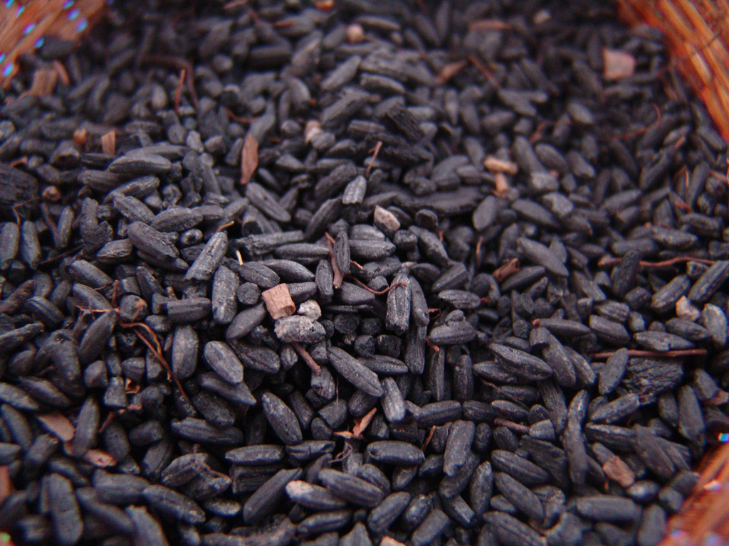 ban non wat